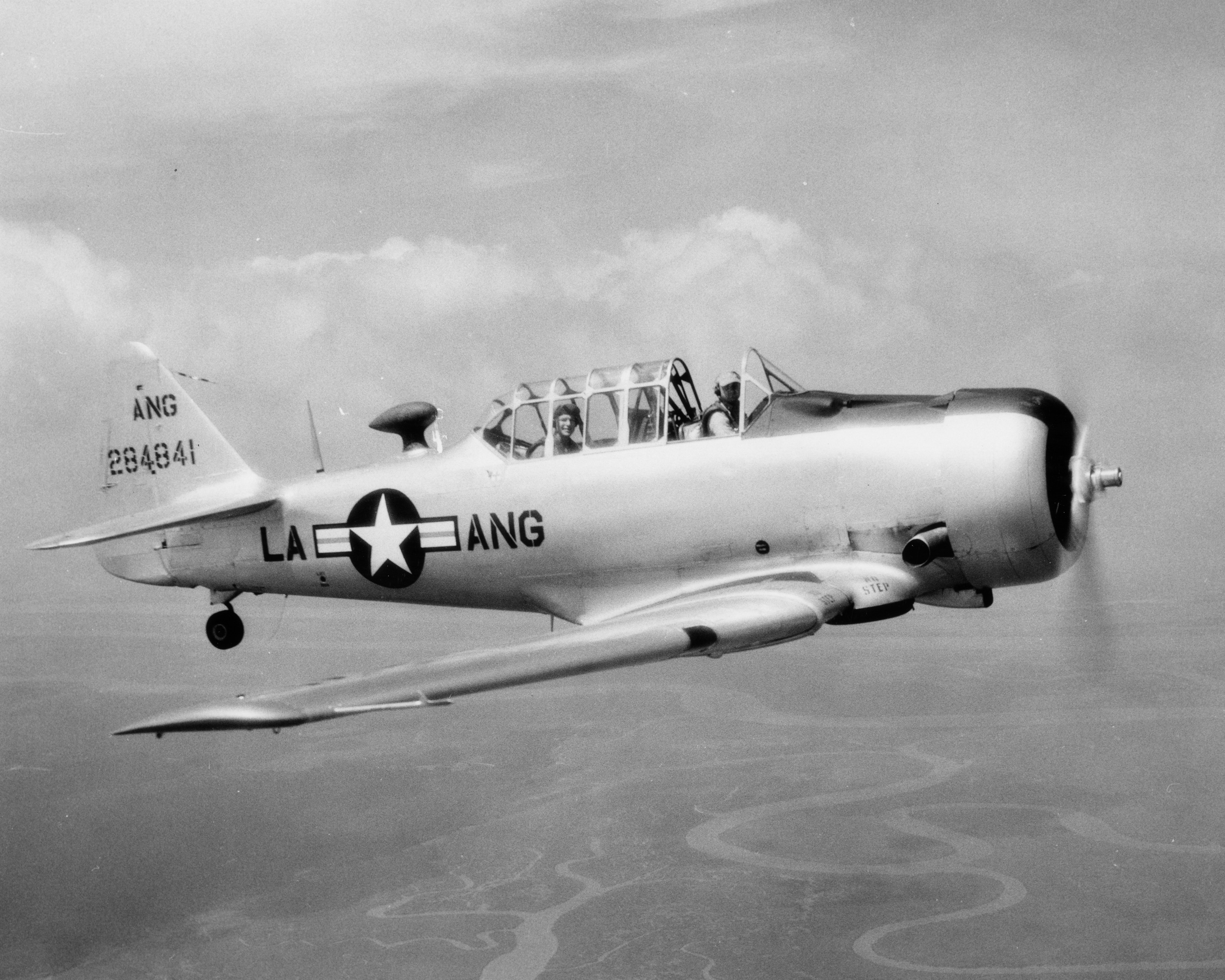 A U.S. Air Force North American AT-6D-NT Texan (s/n 42-84841) from the 122nd Bomb Squadron, 131st Bomb Group, Louisiana Air National Guard. This aircraft was loaned to the Royal Canadian Air Force from May 1951 to February 1953 and later sold to Brazil. It ground-looped at New Orleans on 26 May 1953.